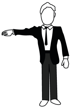 Waza-ari referee gesture